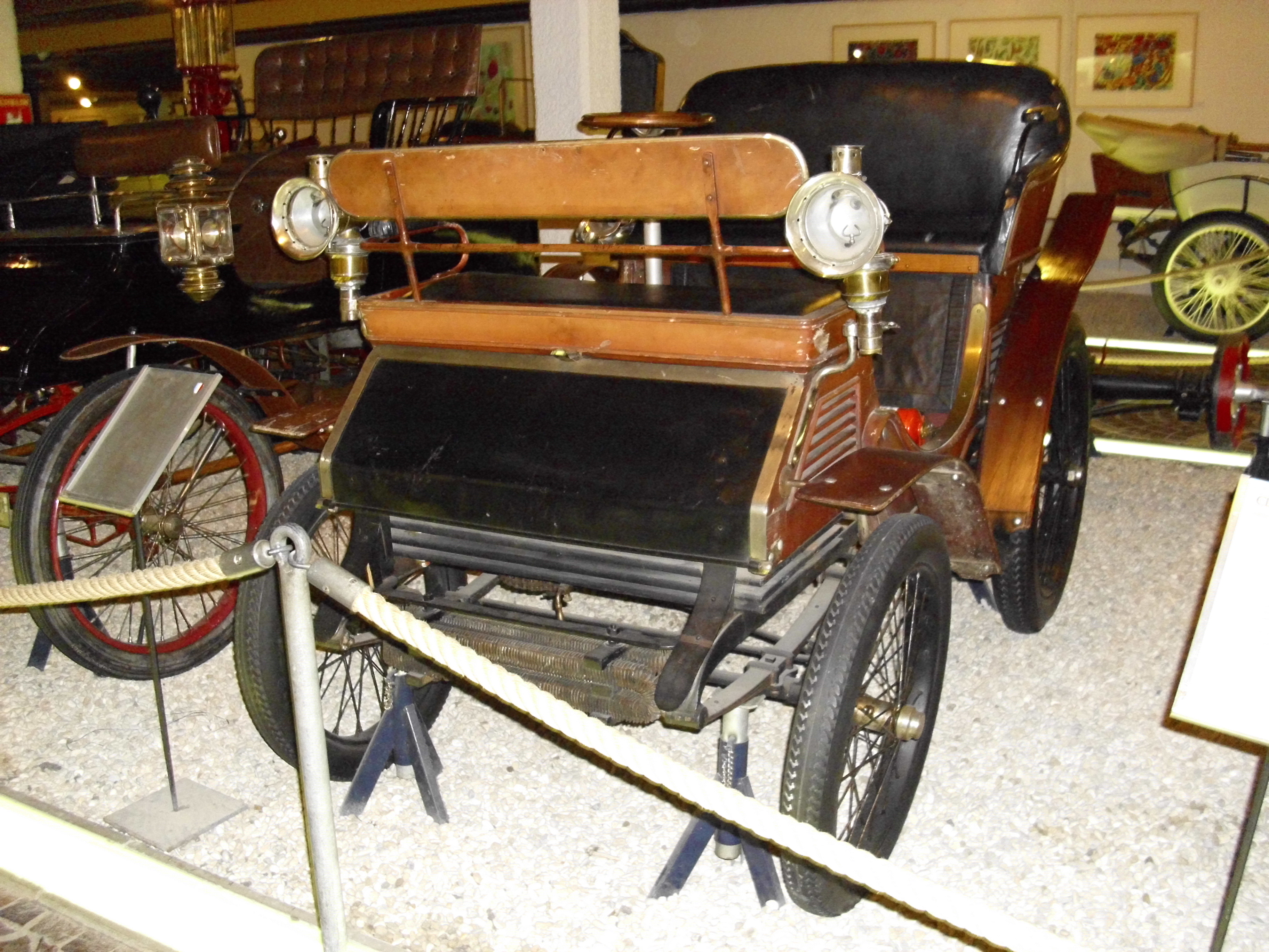 Jeanperrin 1899